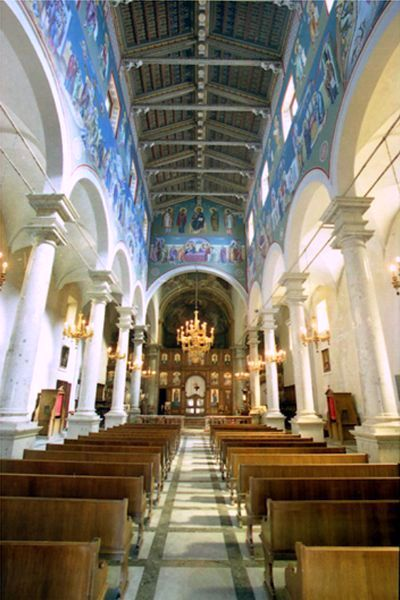 Interior of the Cathedral of St. Great Martyr Demetrius of Piana degli Albanesi.